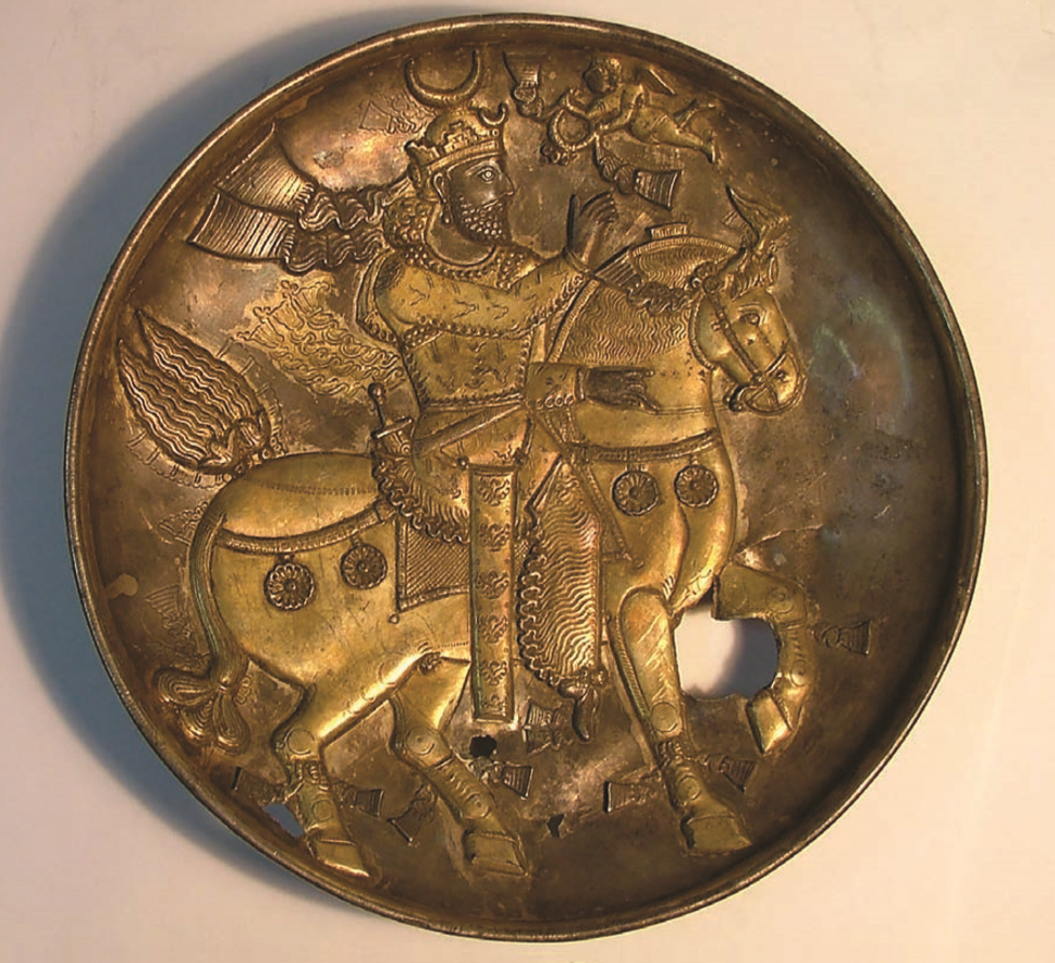 Plate of the Sasanian king Khosrow I Anushirvan.